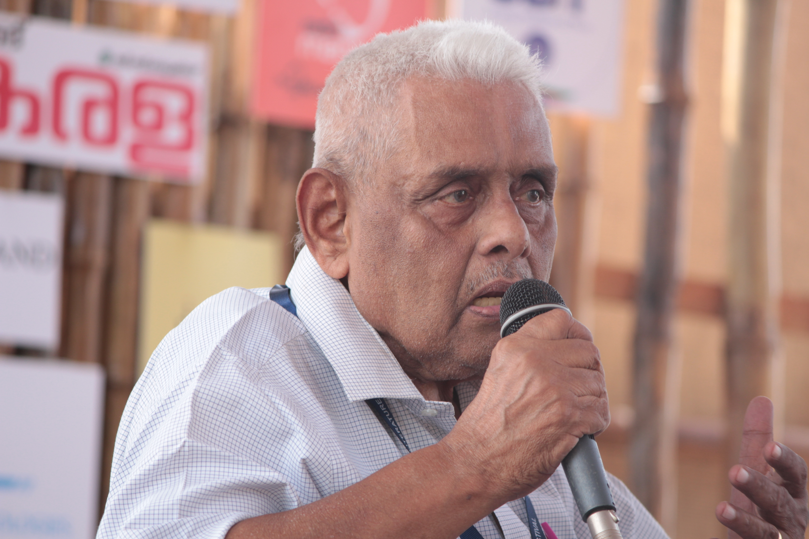 MGS In KLF 2017